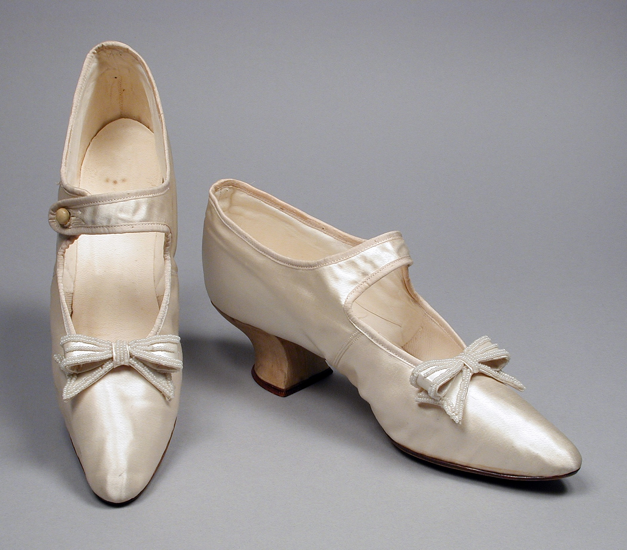 United States, circa 1898 Costumes; Accessories Silk satin, sueded leather 10 x 2 1/4 x 4 3/8 in. (25.4 x 5.71 x 11.11 cm) each Gift of Mrs. Catherine B. Mayo (M.54.29.3a-b) Costume and Textiles